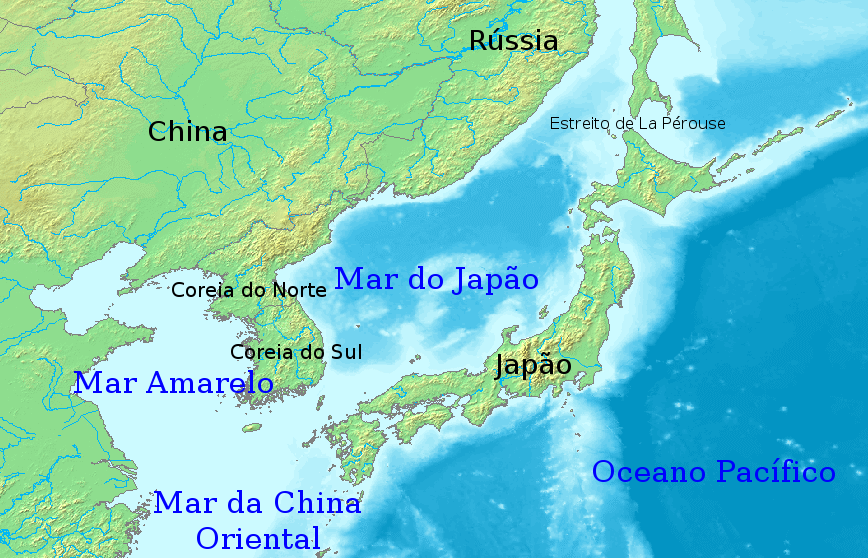 Map of the Sea of Japan in Portuguese